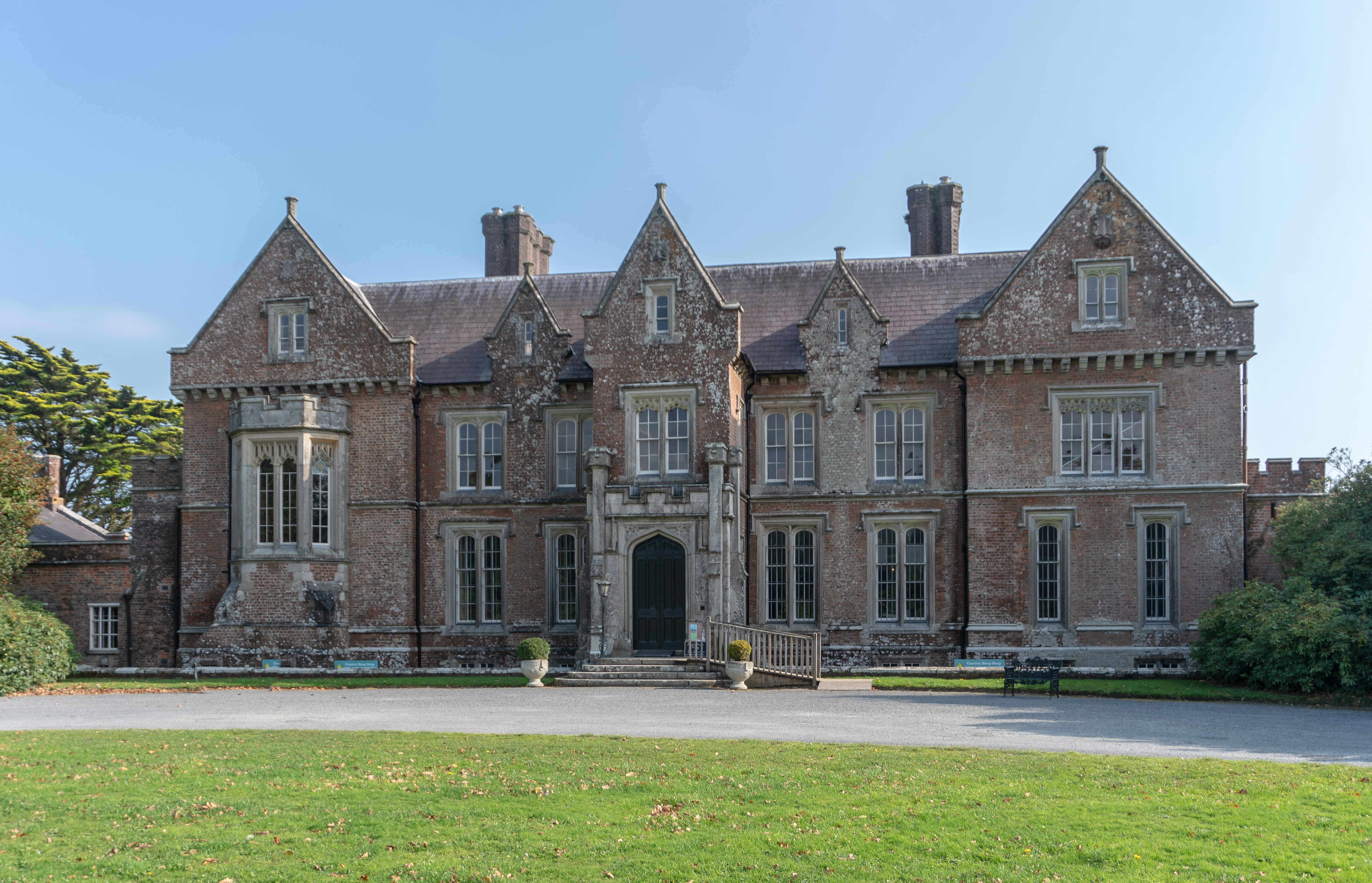 County Wexford, Wells House. Wikidata has entry Q32263753 with data related to this item.